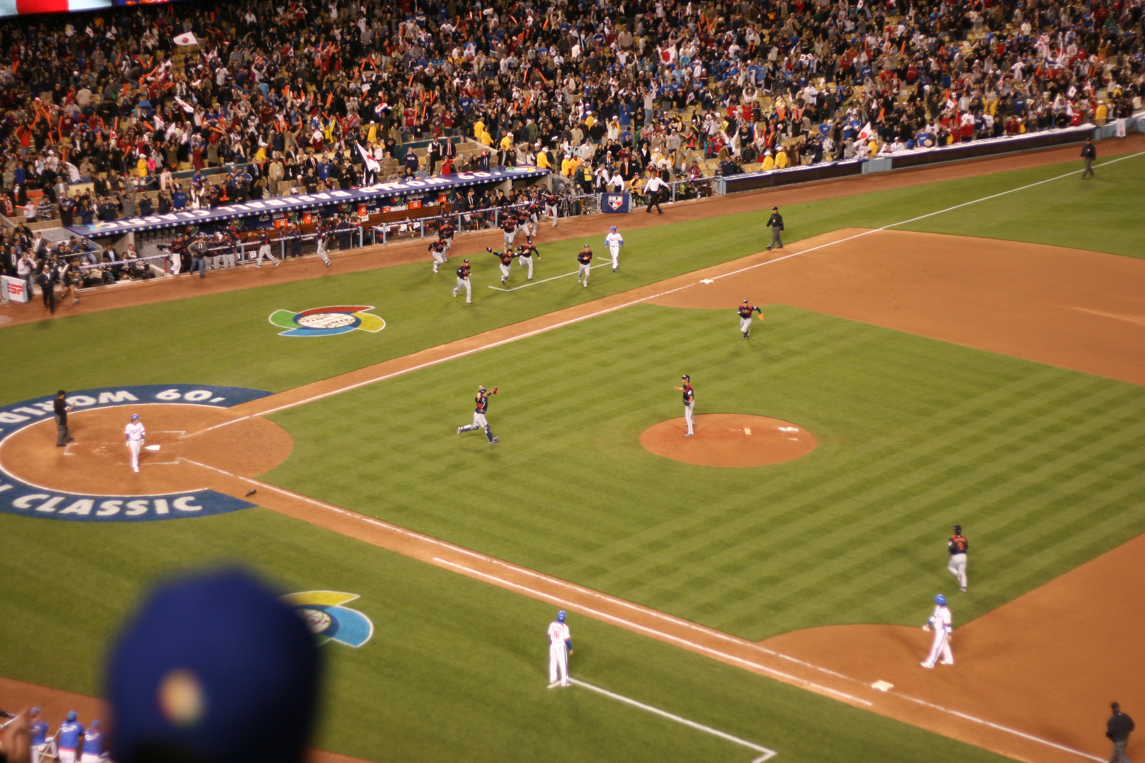 World Baseball Classic Japan vs. Korea match to be pleased with 10 batters struck out the bottom of Korea Kenji Johjima and Yu Darvish Reprint from Flickr